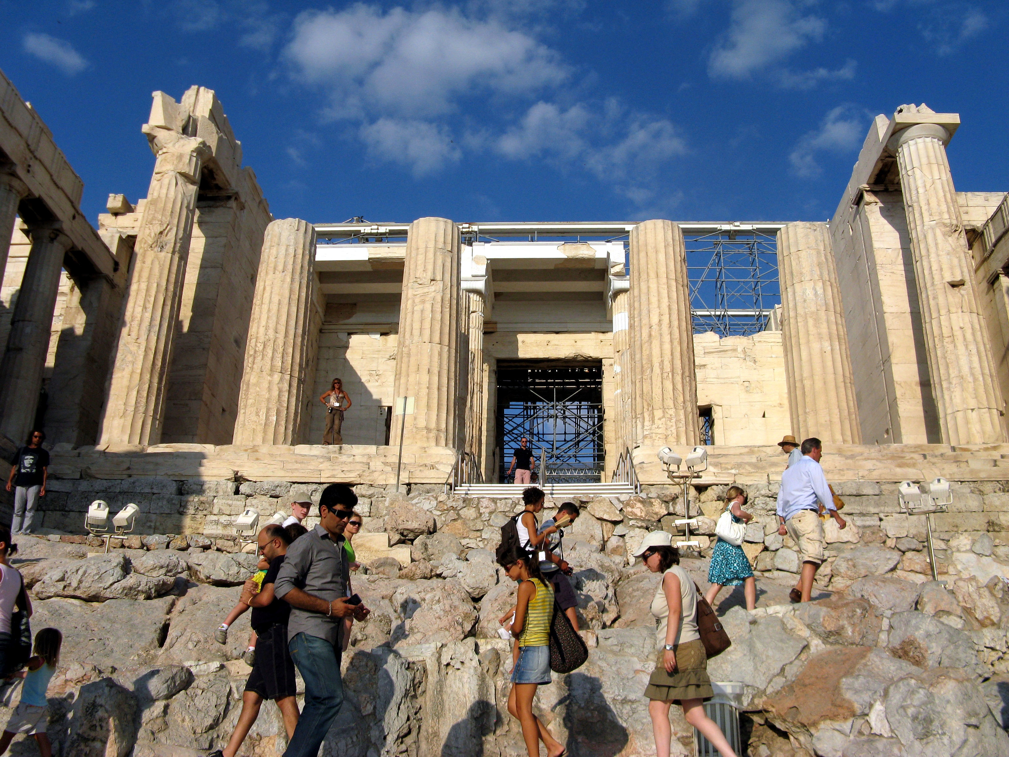 The entrance to the Acropolis